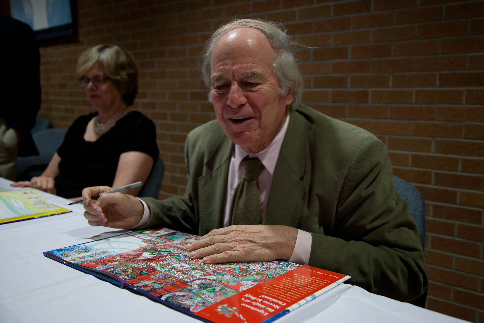 Steven Kellogg signing a picture book on the campus of The University of Findlay on the day he was given an honorary Doctor of Letters degree.